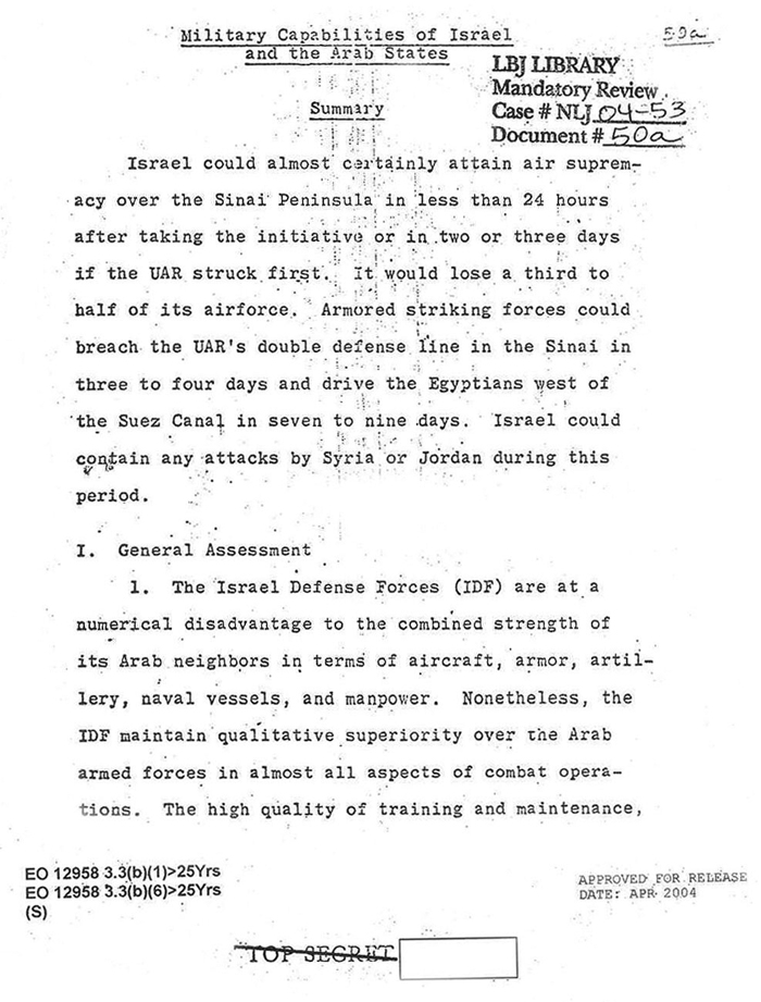 CIA Analysis of the 1967 Six-Day War between the Israel and the UAR (Egypt). The first page only of the draft of the estimate that predicted the outcome of the war.